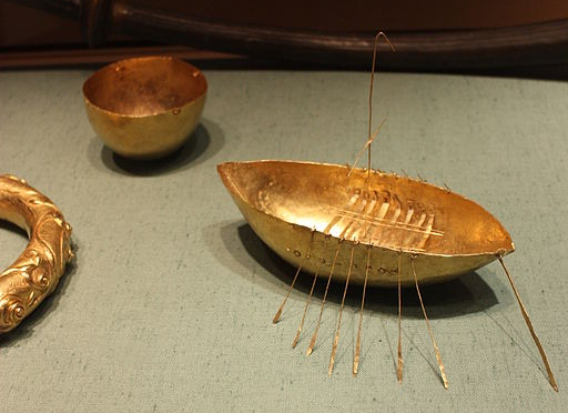 Broighter Gold, National Museum of Ireland, Kildare Street, Dublin, Republic of Ireland, October 2010